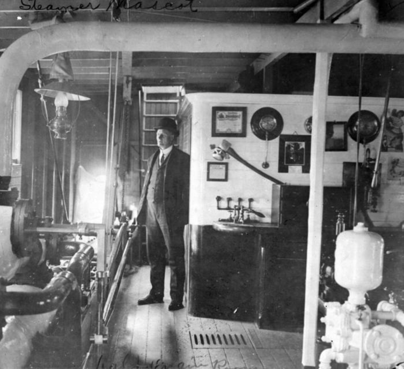 Machinery room of Mascot, circa 1900. Note certificates on bulkhead, probably engineers licenses.